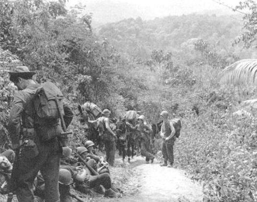 The 5307th Composite Unit (Provisional) code name GALAHAD became famous as Merrill's Marauders